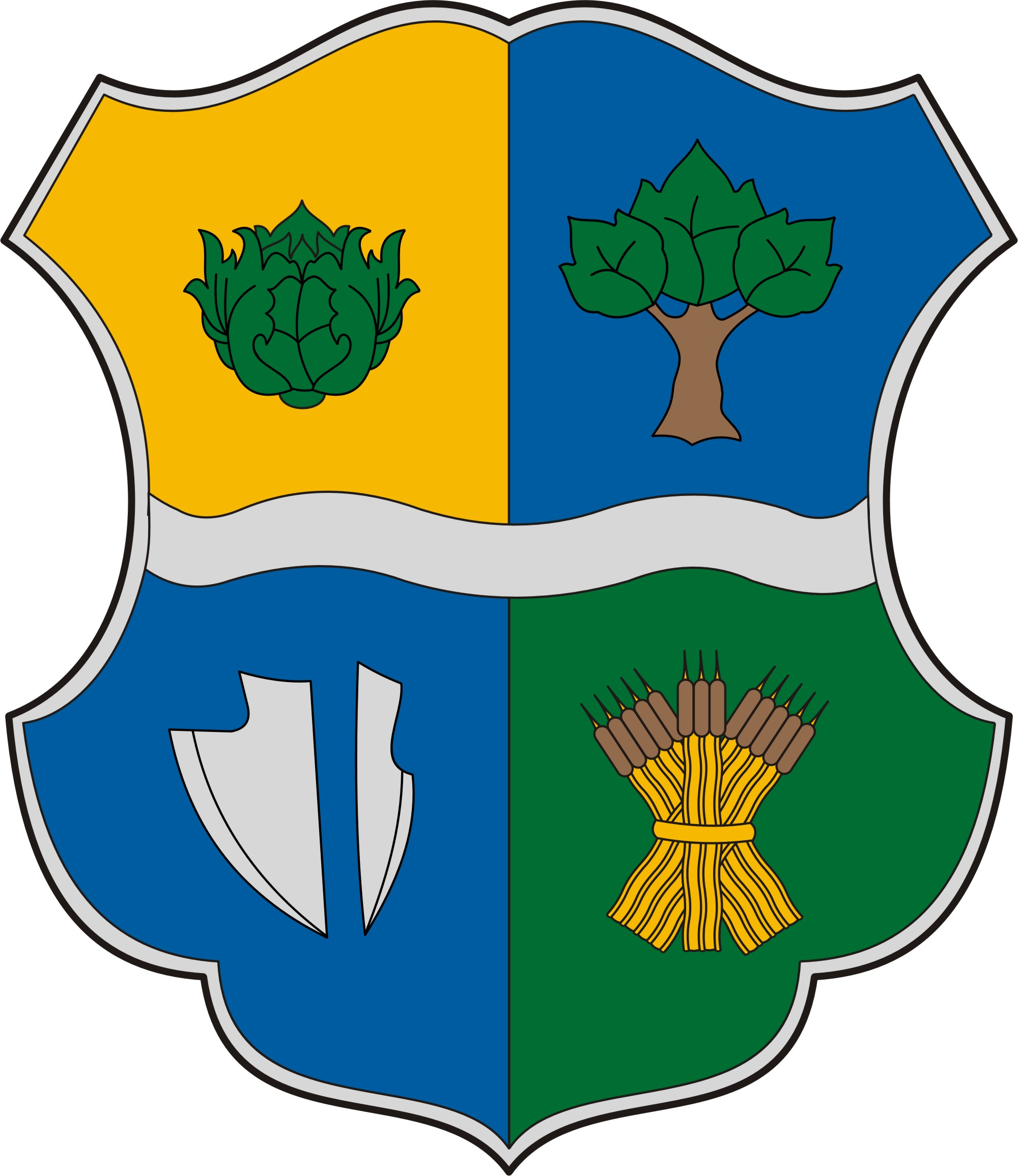 Coat of arms of Pátroha Hungary